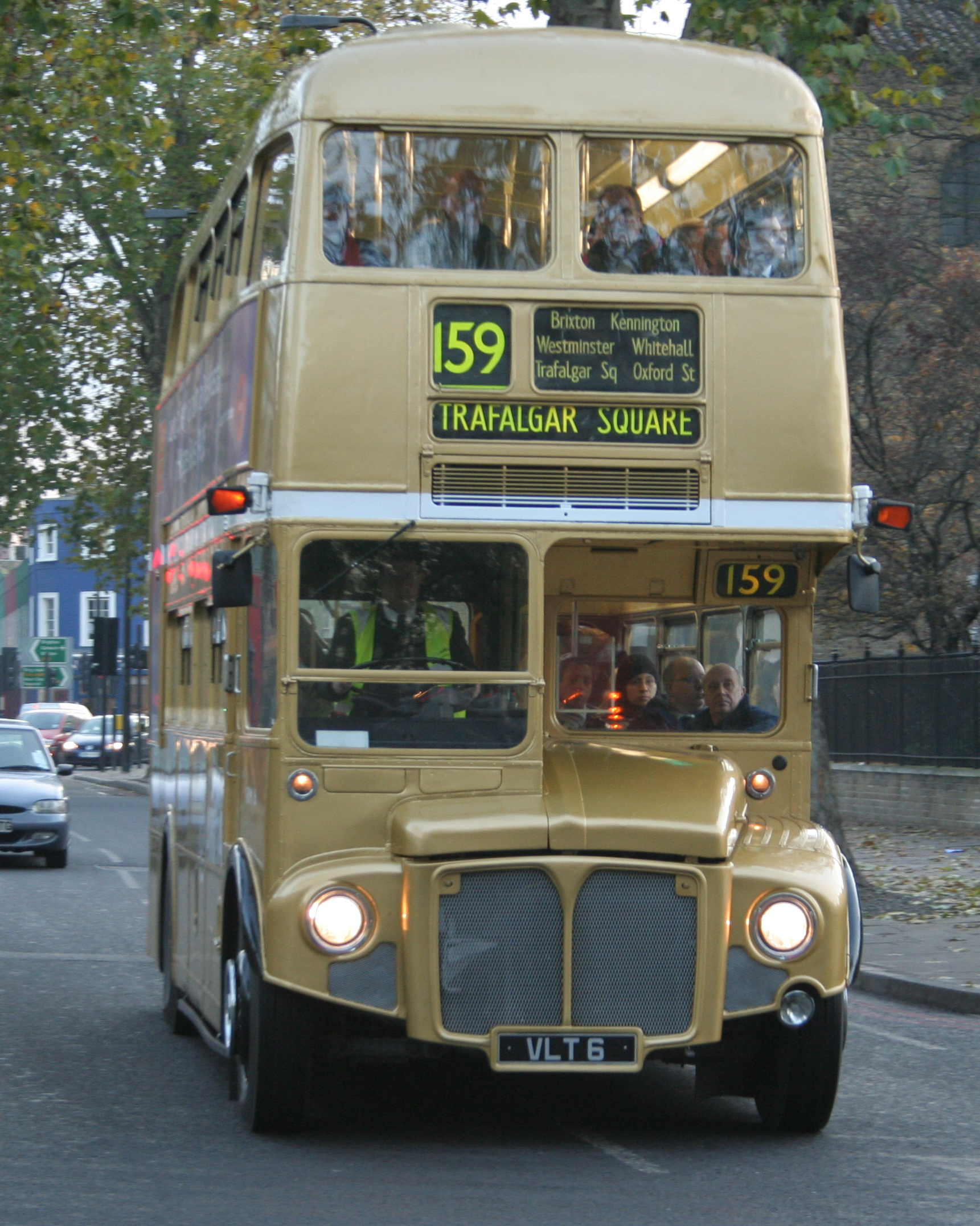 Arriva London special purposes fleet Routemaster bus RM6 (reg. VLT 6), pictured in an unknown location operating route 159, heading north en route to Trafalgar Square. It is wearing a gold livery commemorating the Golden Jubilee of Elizabeth II. Not normally a service bus, it is pictured operating a special extra journey on the 159 on 8 December 2005, the second to last day of normal public transport use of Routemasters in London. By the afternoon of 9 December, on which RM6 also worked specials, the route had been transferred to modern double-decker buses. After that day, the only Routemasters operating public transport routes in London would be on the short-worked tourism focused Routemaster Heritage Routes 9H and 15H.